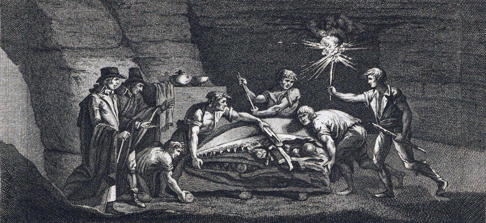 Discovery of the first Mosasaur (Mosasaurus hoffmani), at Maastricht, engraving by G. R. Levillaire, published in the book Histoire naturelle de la montagne de Saint-Pierre de Maestricht, by Barthélemy Faujas de Saint-Fond on Google books, page 37